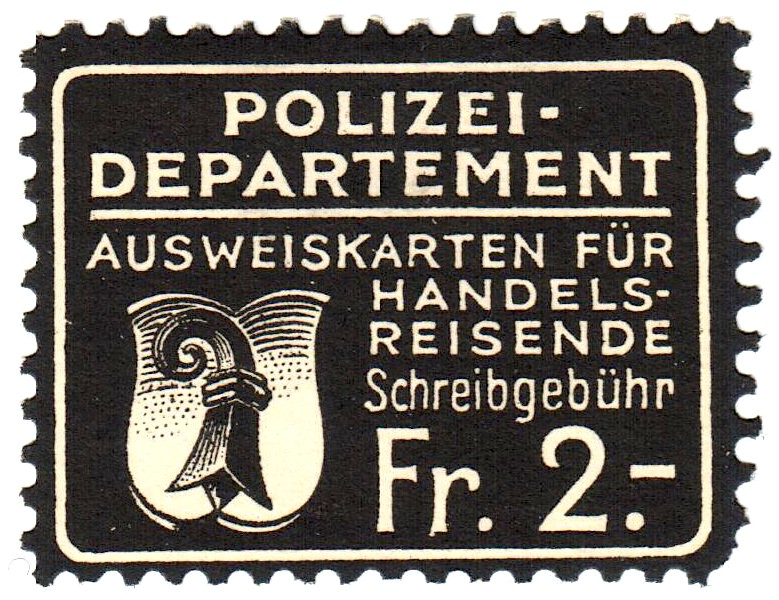 Switzerland Basel 1931 police revenue 2Fr - 116